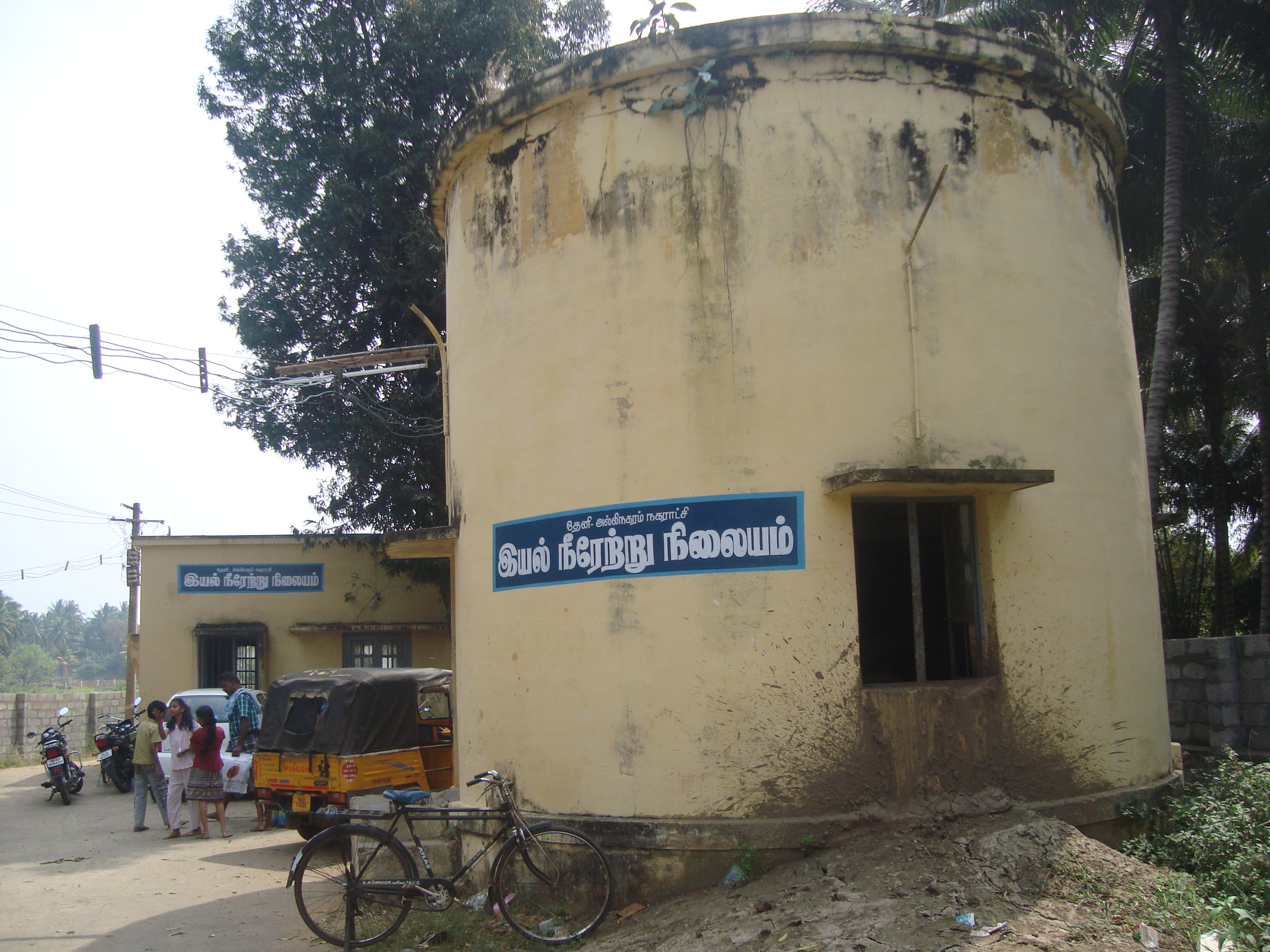 Theni - Allinagaram Water Pumping Station Front